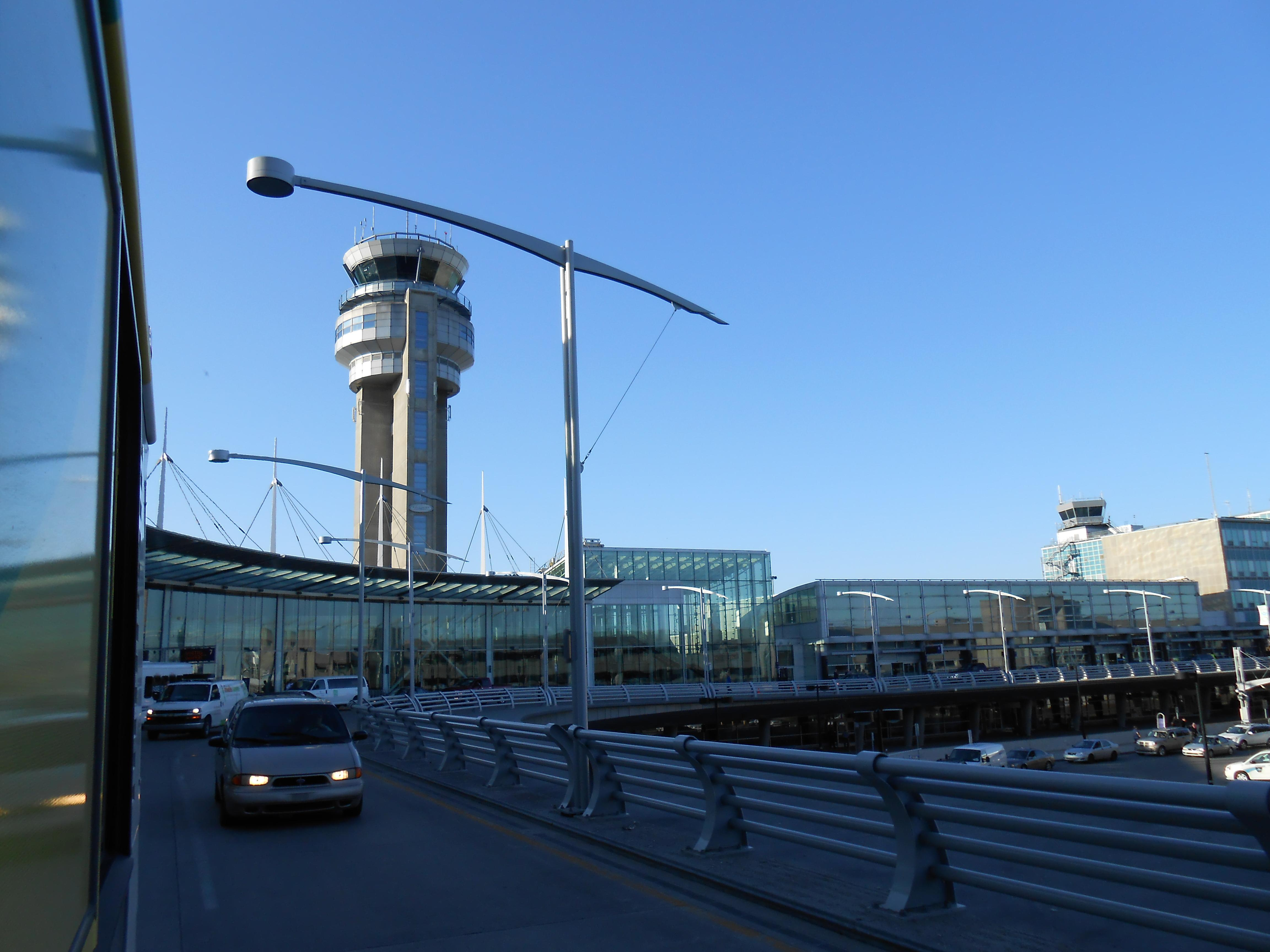 Montréal-Pierre Elliott Trudeau International Airport